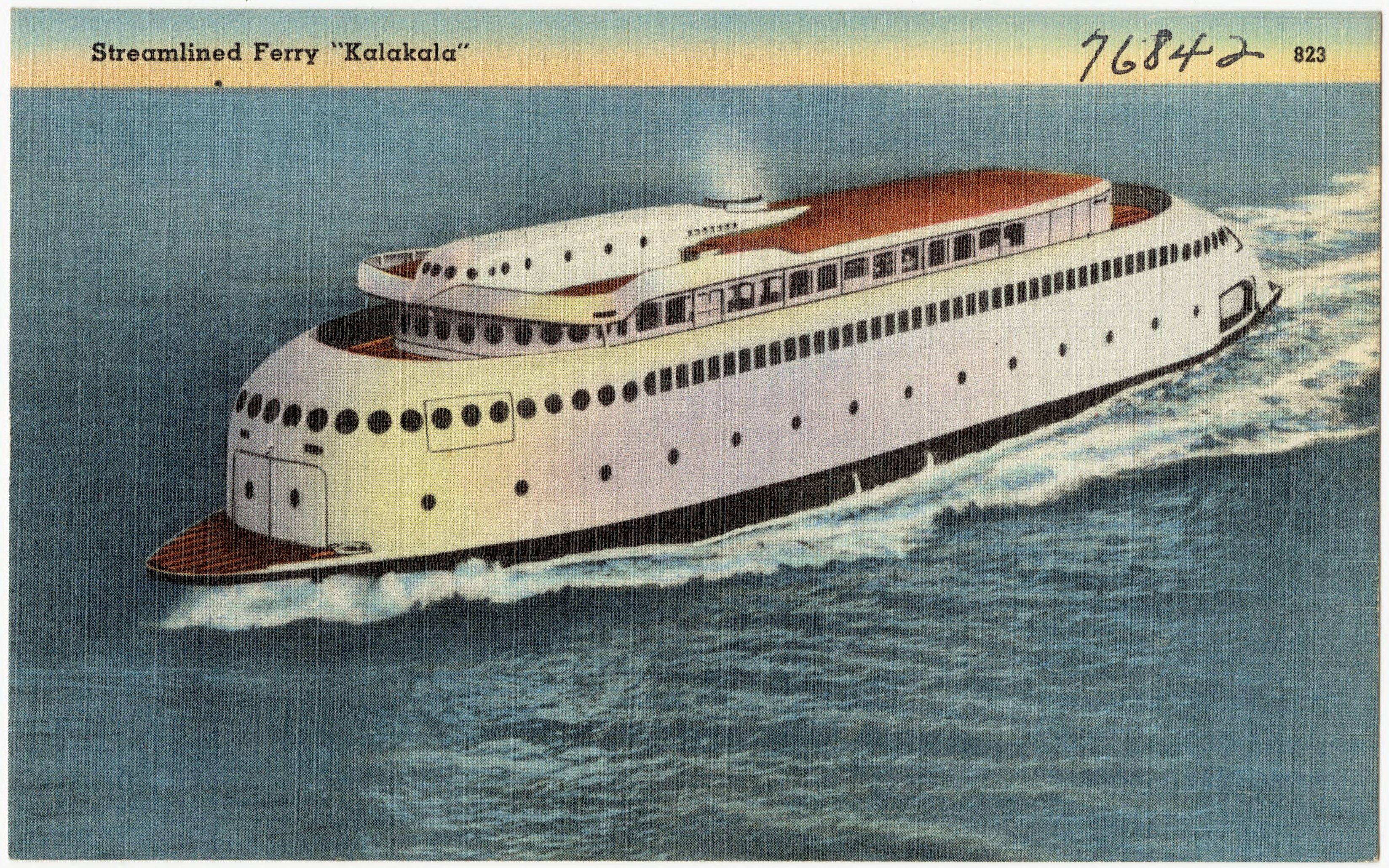 Title: Streamlined ferry "Kalakala" Subjects: Boats Places: Washington Notes: Title from item. Extent: 1 print (postcard) : linen texture, color ; 3 1/2 x 5 1/2 in. Accession #: 06_10_021928